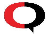 Logotype (created by Mikael Sol) for the comics quiz Comiquiz.